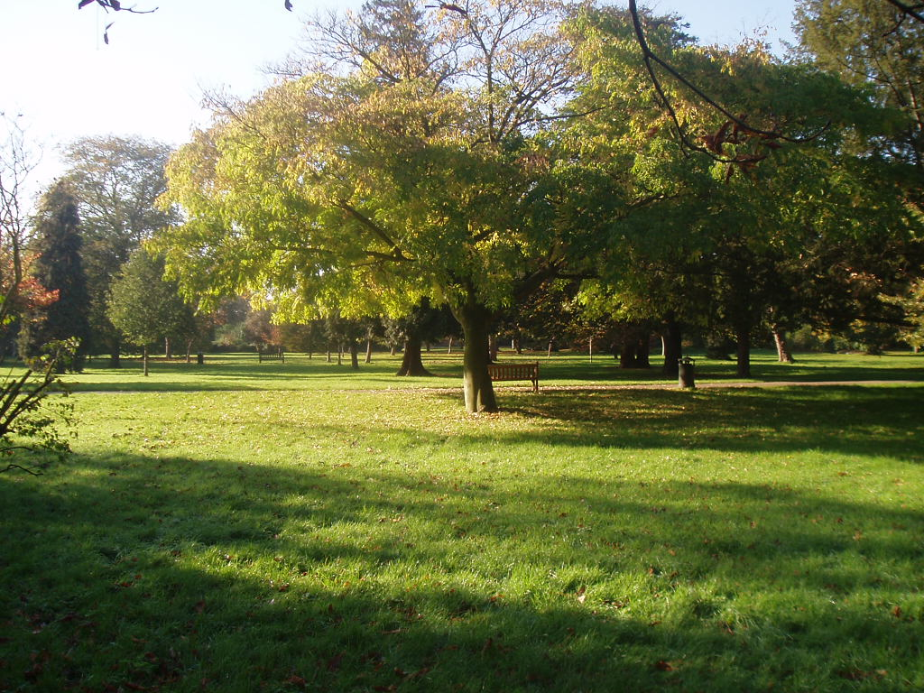 Trees at Home Park, Hampton Court